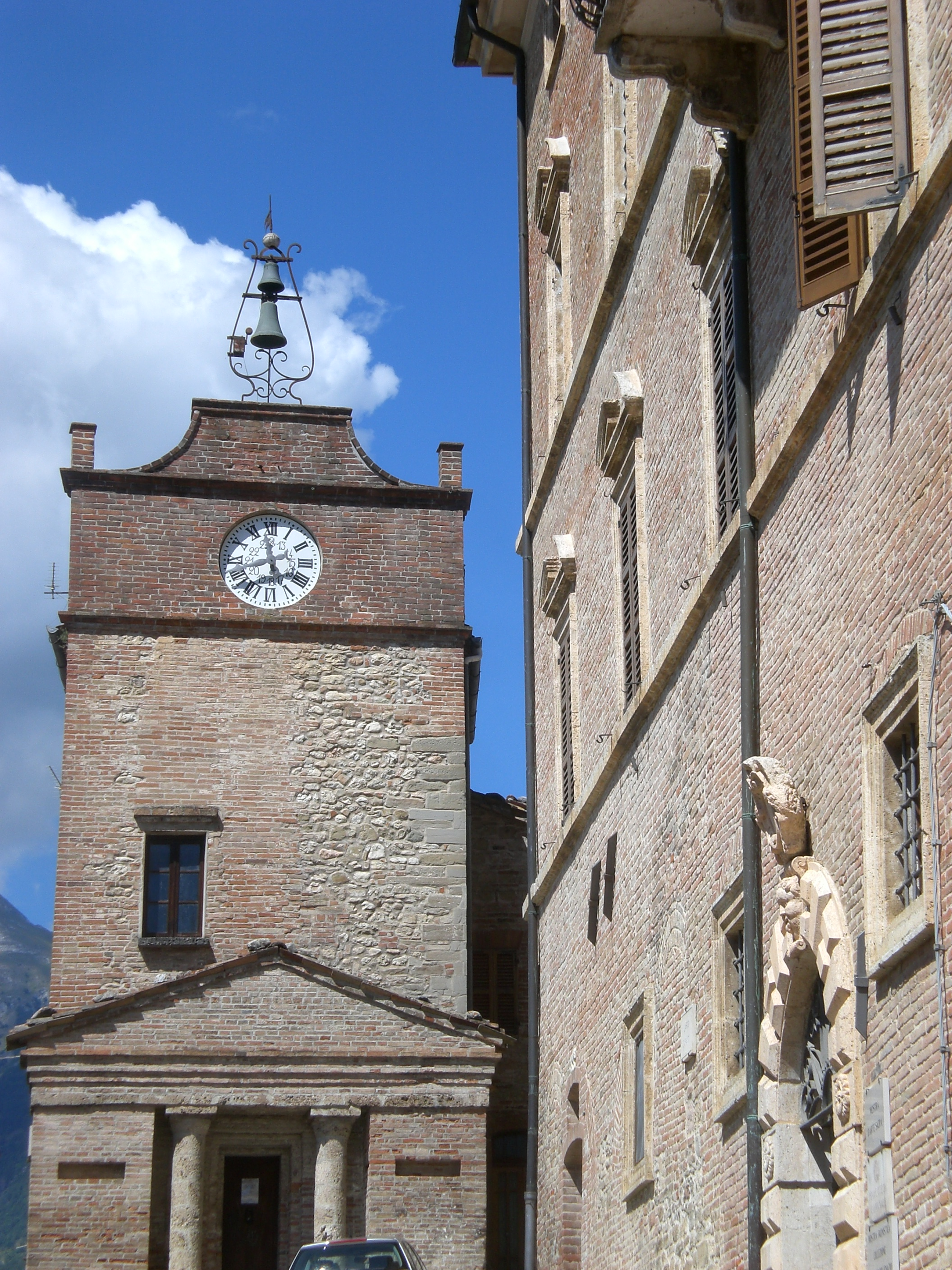 Clock Temple, XVI century